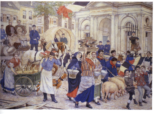 Litho by Mellery: Suppression of the octroi in 1860